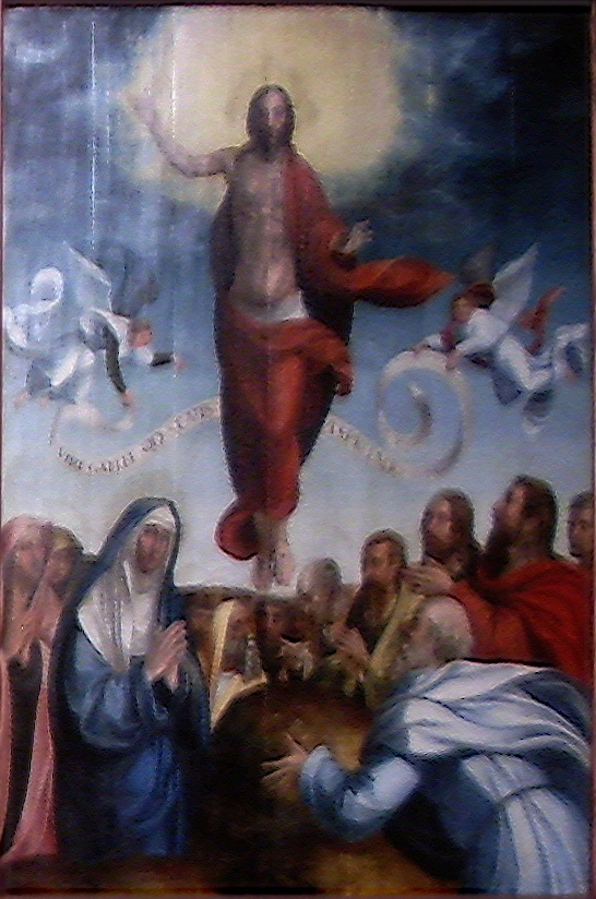 Panel from the altarpiece from the Mosteiro da Trindade